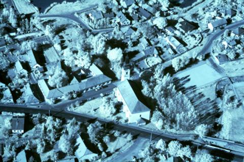 Solt, temple, Hungary, aerialarcheological photography